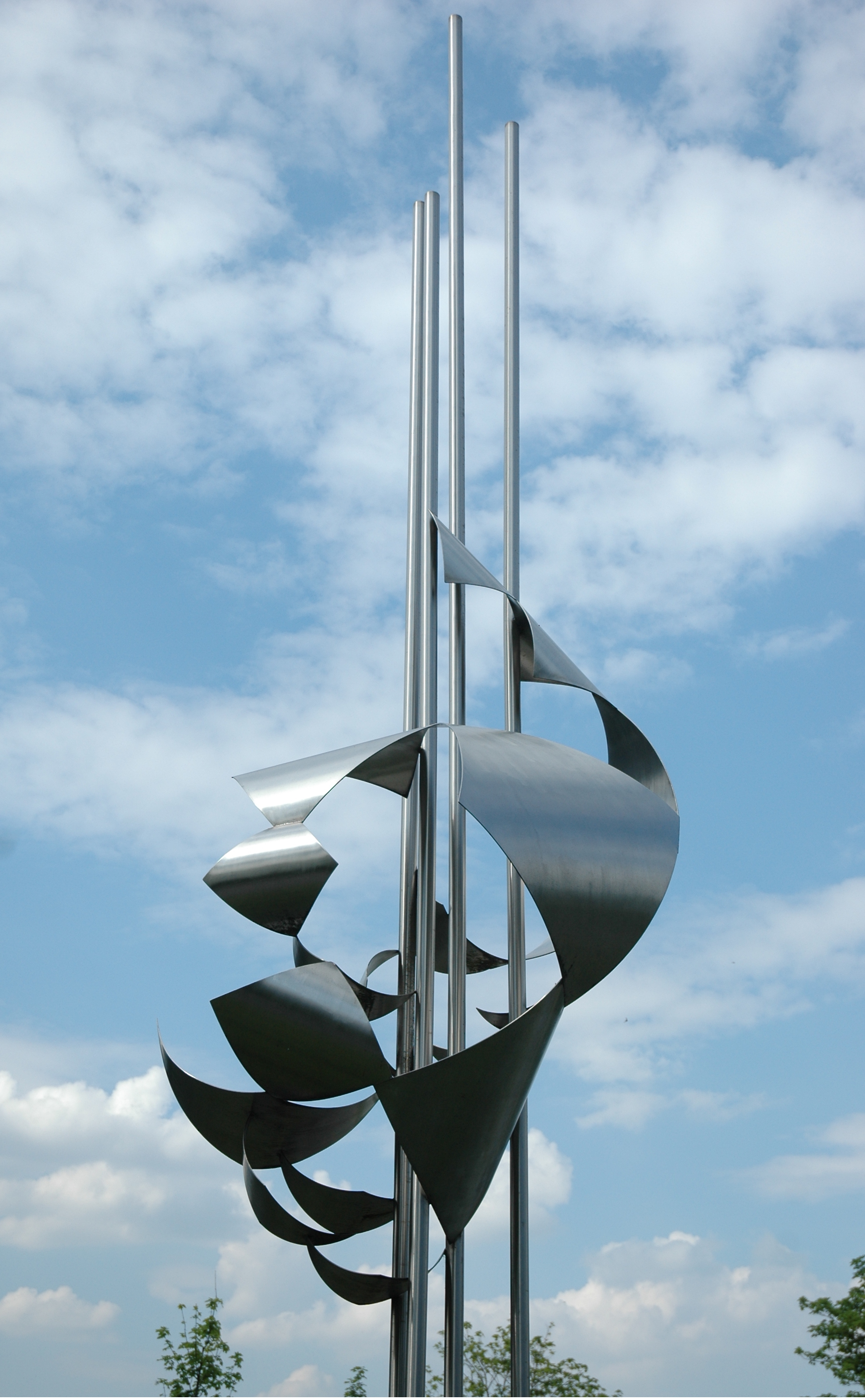 Grosser Raumwirbel, Artwork made of steal by Will Brüll